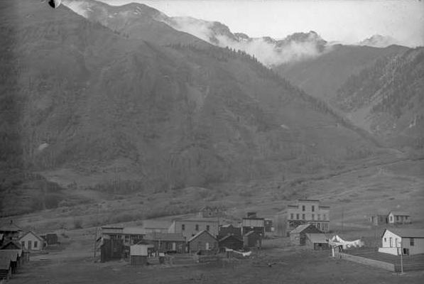 No. 63 Ophir, Colo, east side / photo by Thomas McKee CREATED/PUBLISHED [between 1890 and 1900?]. SUMMARY Ophir, Ouray County, Colorado, consists of frame houses and businesses. Laundry hangs in fenced yards; signs read: "Selby and Sebring," "Doors and Windows," "Blacksmith House Coal." Fog drifts among crags in the background.